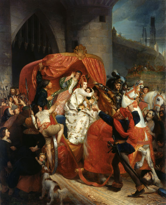 Inspired by "The History of the Duks of Burgundy" of Prosper de Barente, Sophie Rude shows how Duchess Isabella of Portugal, wife of Philip the Good, leaves the city of Bruges with her son Charles, when she is stopped by hostile rioters. Sophie Rude shows in this lyrical and romantic composition what lesson she learns by Delacroix's contemporary paintings.